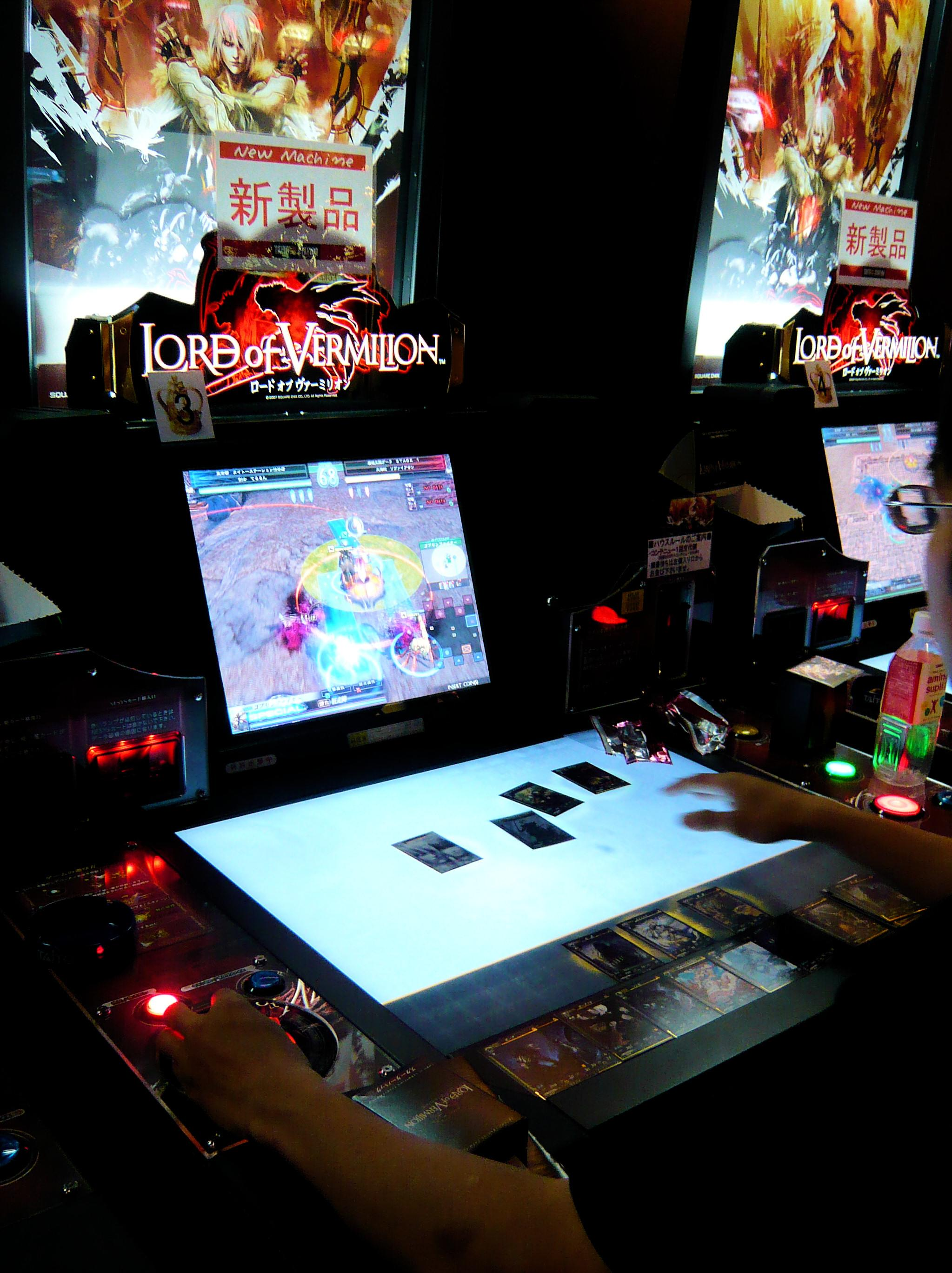 A gamer plays Lord of Vermilion video game on arcade. (Shibuya - Tokyo Taito Station)